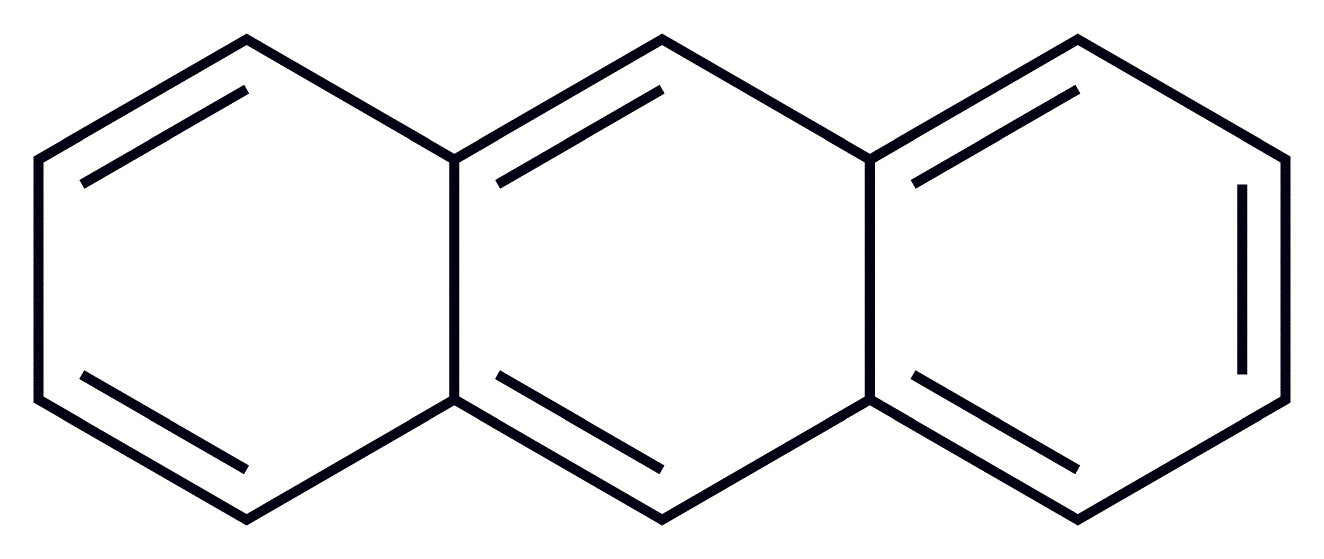 Skeletal structure of Anthracene